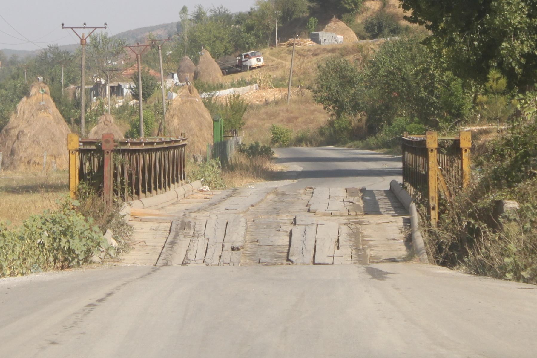 A Bailey bridge on the nationalroad SH6 near Burrel, Mat district